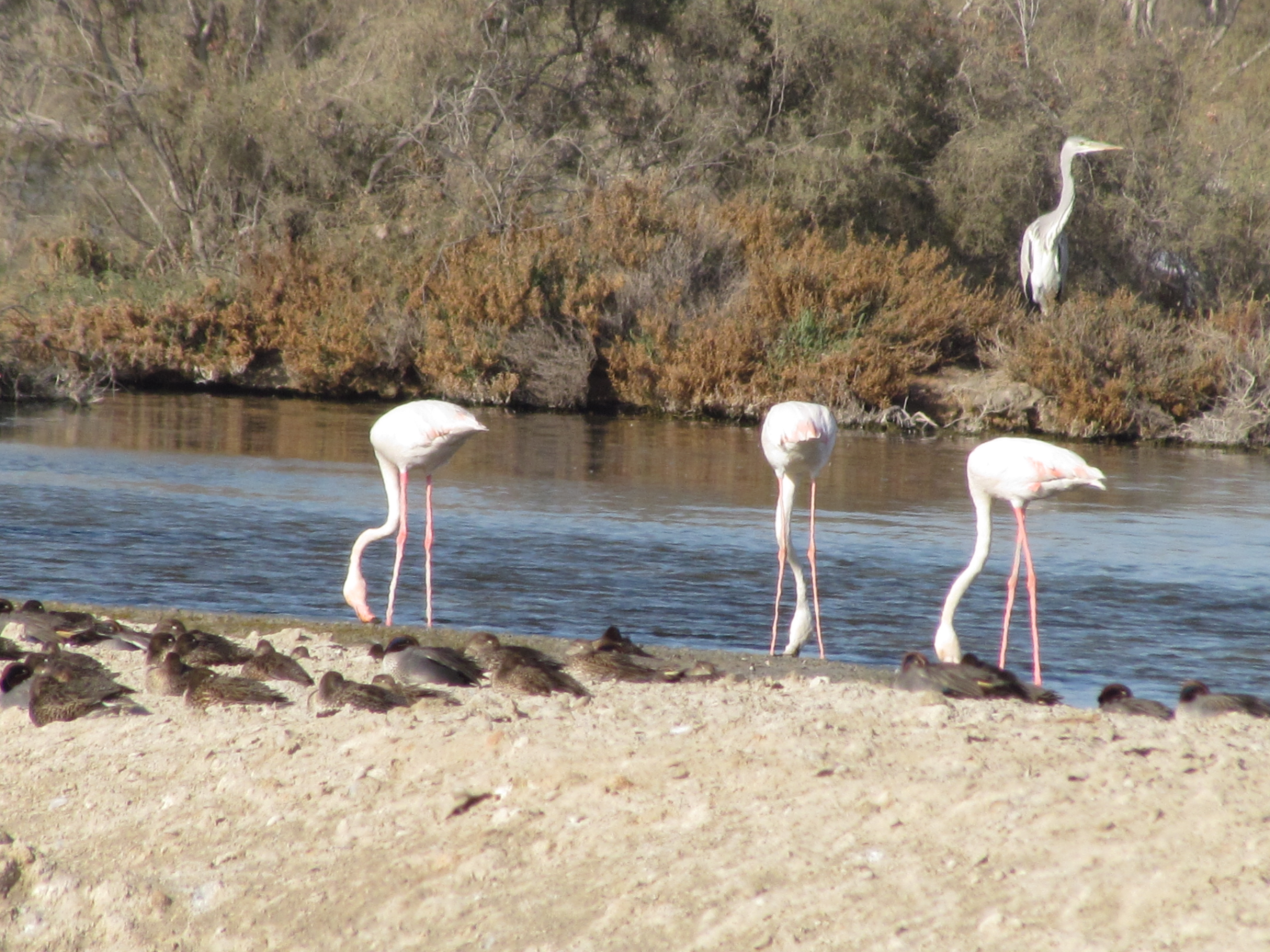 a view from Rasal Khore wildlife Sanctuary, Dubai, UAE